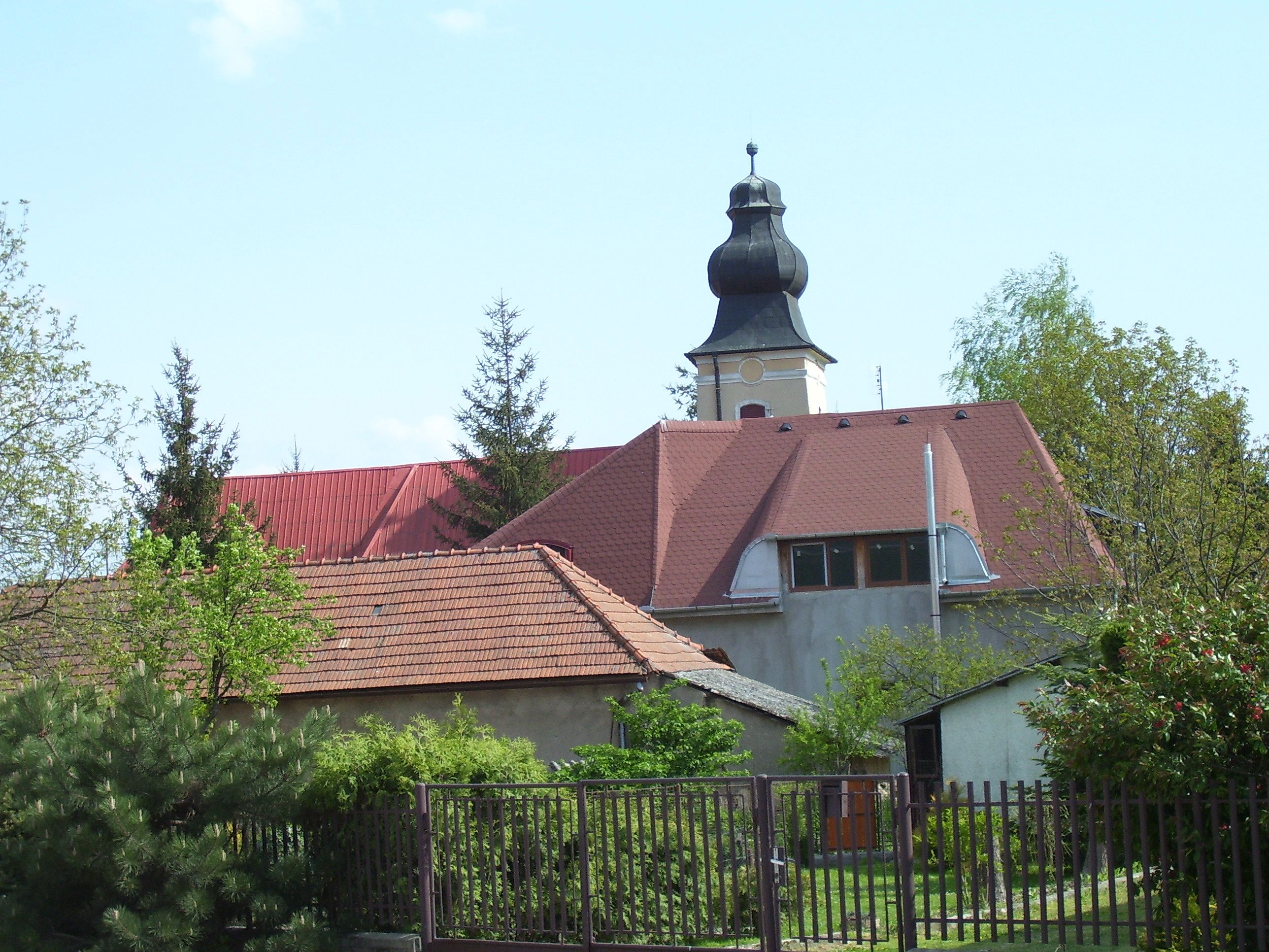 The photo was taken in Jelenec (Hungarian: Gímes) village in Slovakia on 2 May 2008. The steeple can be seen in the background. Own work.